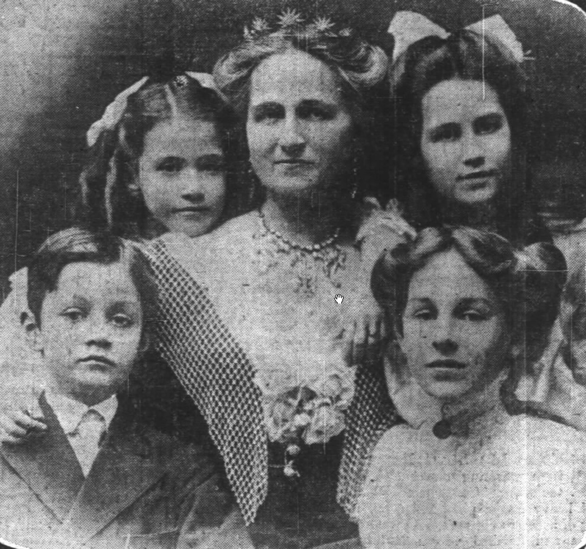 Rose Selfridge, wife of Harry Gordon Selfridge, and her family. Top row: Beatrice, Rose (in centre) Violette. Bottom Row: Gordon and Rosalie.